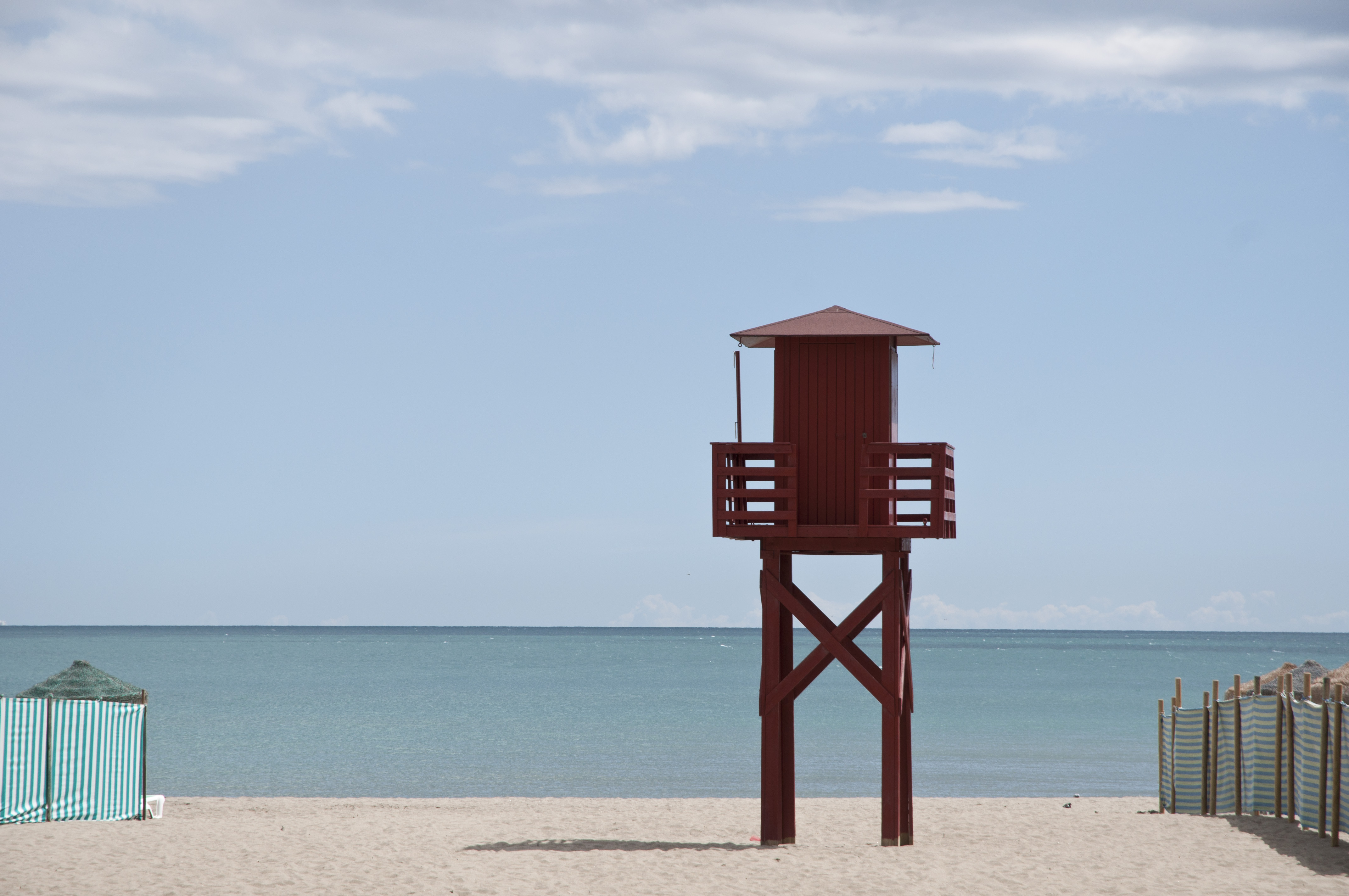 Torremolinos beach, Cosat del Sol, Spain.